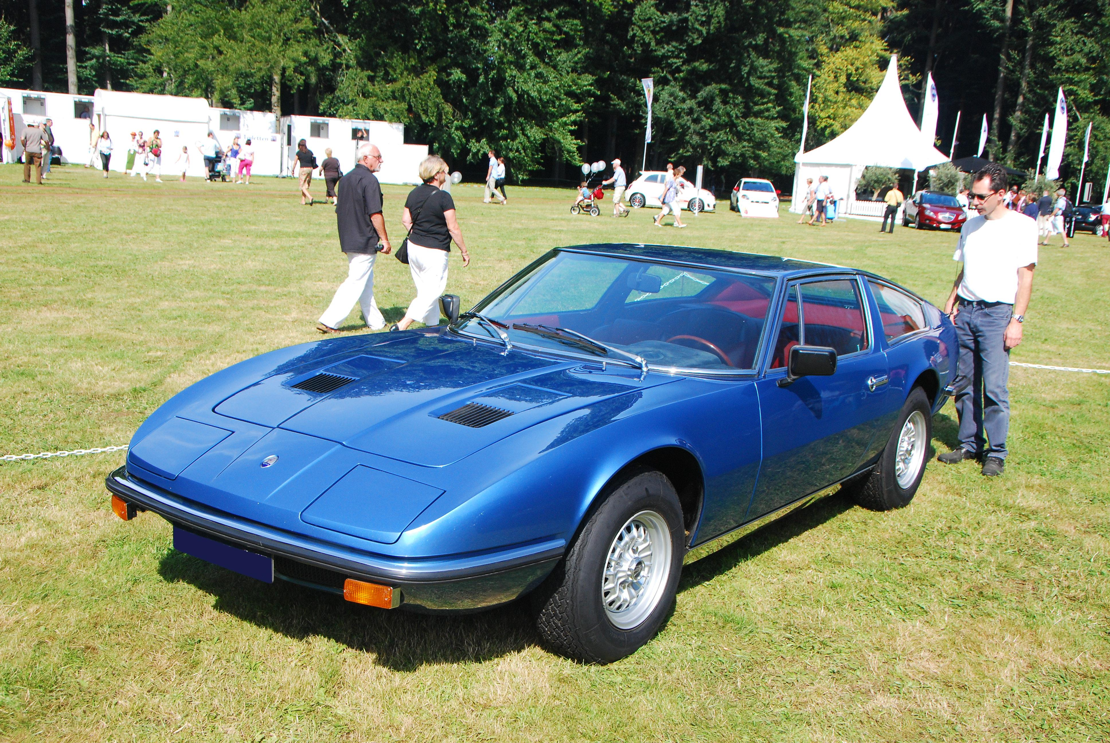 Maserati Indy 4.9 seen during Concours d'Elegance 2008, Apeldoorn (NL)